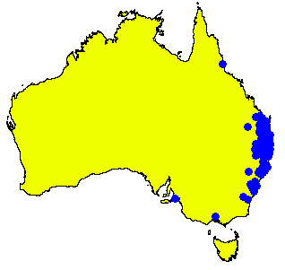 Angophora subvelutina occurrence data downloaded from Australasian Virtual Herbarium using on 21 March 2019